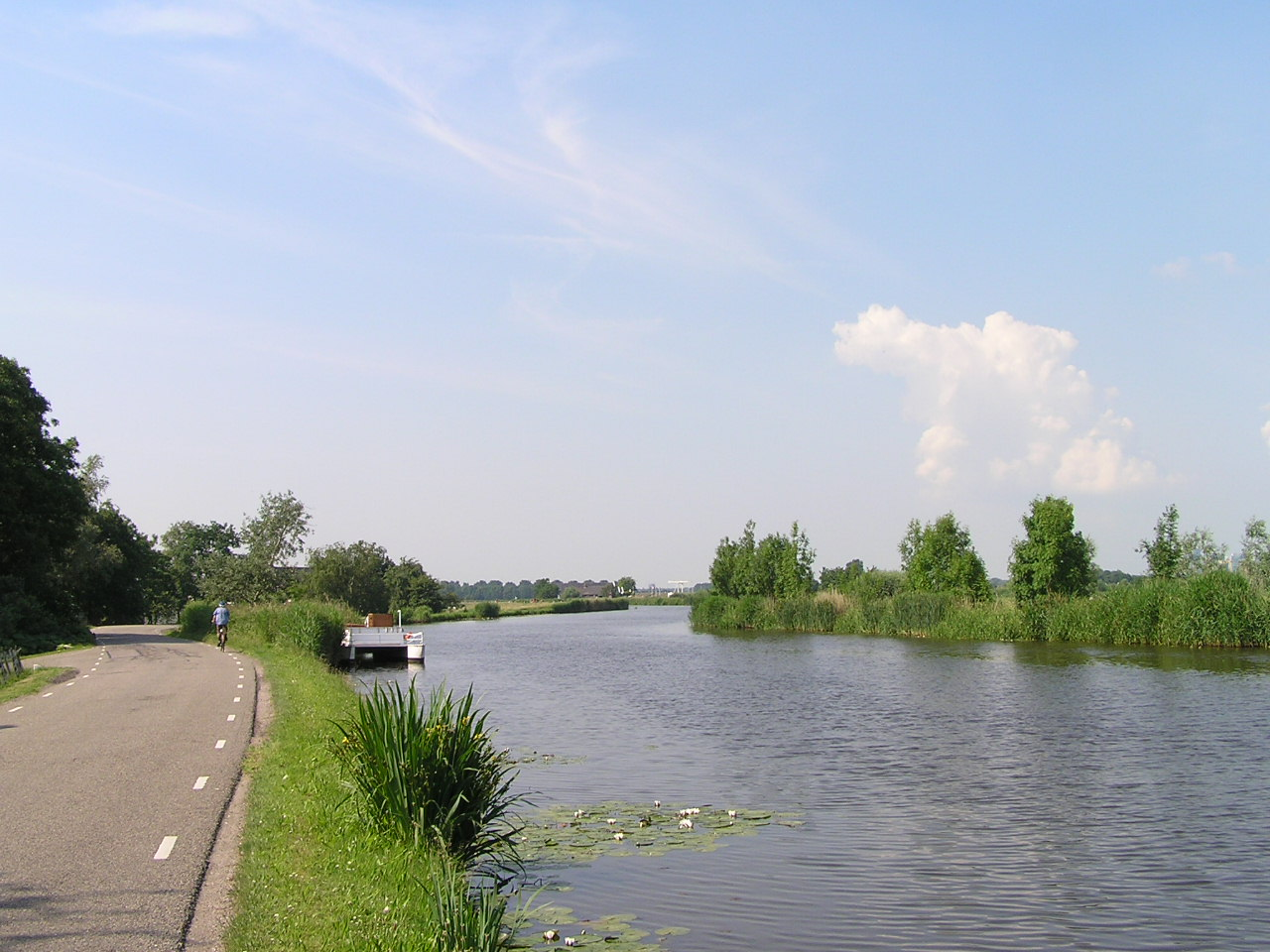 Waver River, the Netherlands.